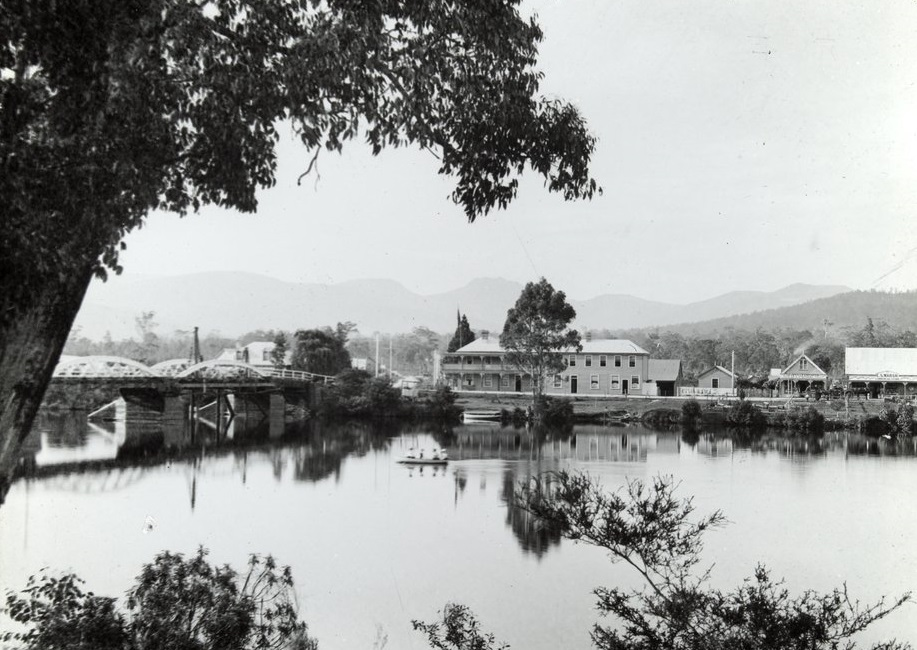 A view of Huonville, sometime between 1900-1949. Originally a lantern slide by John Watts Beattie, donated to the State Library of Victoria by Paul MacIntyre. This image is of Australian origin and is now in the public domain because its term of copyright has expired. According to the Australian Copyright Council (ACC), ACC Information Sheet G023v17 (Duration of copyright) (August 2014).3 Type of materialCopyright has expired if … A Photographs or other works published anonymously, under a pseudonym or the creator is unknown: taken or published prior to 1 January 1955BPhotographs (except A): taken prior to 1 January 1955CArtistic works (except A & B): the creator died before 1 January 1955DPublished editions1 (except A & B): first published more than 25 years agoECommonwealth, State or Territory owned2 photographs and engravings: taken or published more than 50 years ago 1 means the typographical arrangement and layout of a published work. eg. newsprint. 2 owned means where a government is the copyright owner as well as would have owned copyright but reached some other agreement with the creator. 3 Copyright Amendment (Disability Access and Other Measures) Bill 2017 (Australian Government) When using this template, please provide information of where the image was first published and who created it.